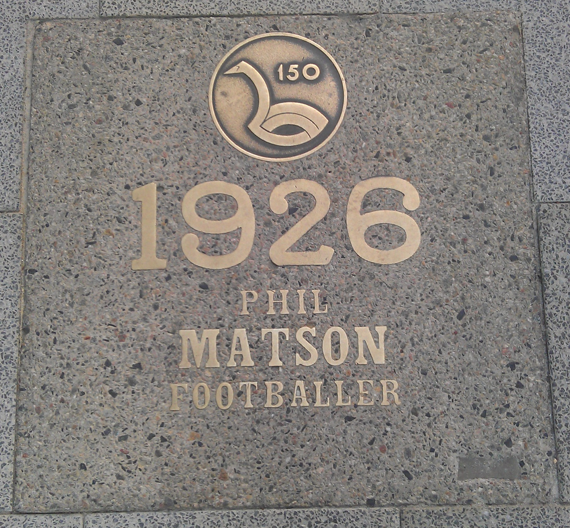 Plaque located at St George Terrace Perth, Western Australia